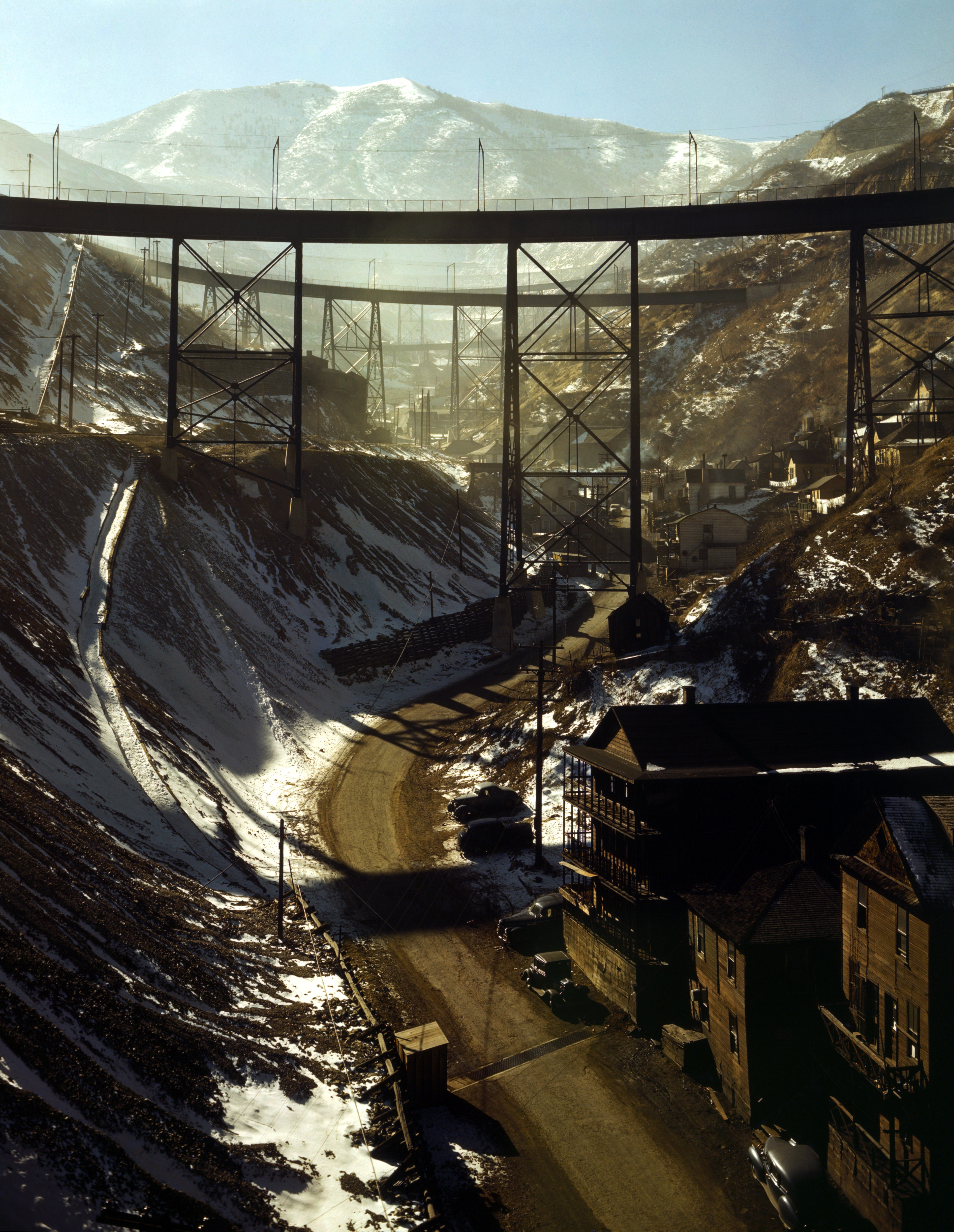 Carr Fork Canyon as seen from "G" bridge, Bingham Copper Mine, Utah. In the background can be seen a train with waste or over-burden material on its way to the dump. This is a retouched picture, which means that it has been digitally altered from its original version. Modifications: Rotated and cropped, dirt and fiber removed, color balanced.. The original can be viewed here: Bingham Canyon Mine 1942.jpg: .